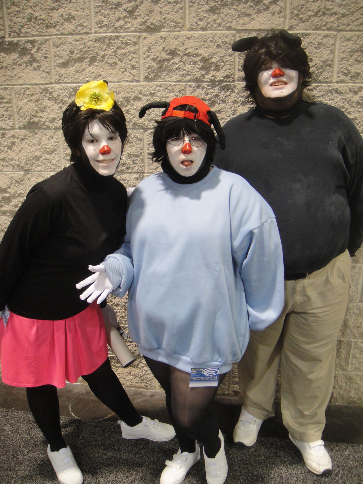 photo 2012 Pop Culture Geek taken by Doug Kline If you're interested in higher resolution versions of my images, contact me via my profile page.